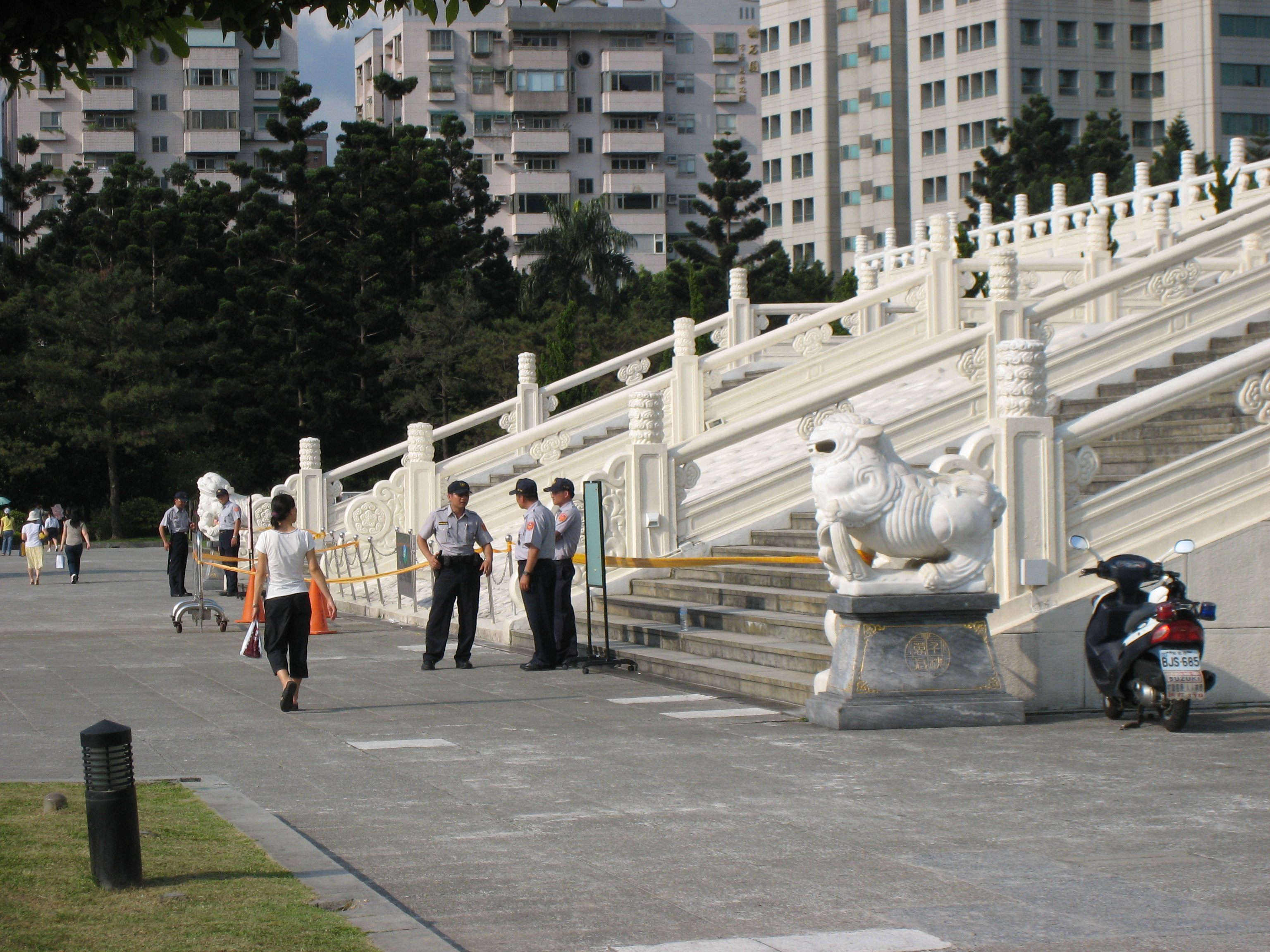 Police guard the Chiang Kai-shek Memorial Hall during the renaming controversy as the main hall was closed to visitors.